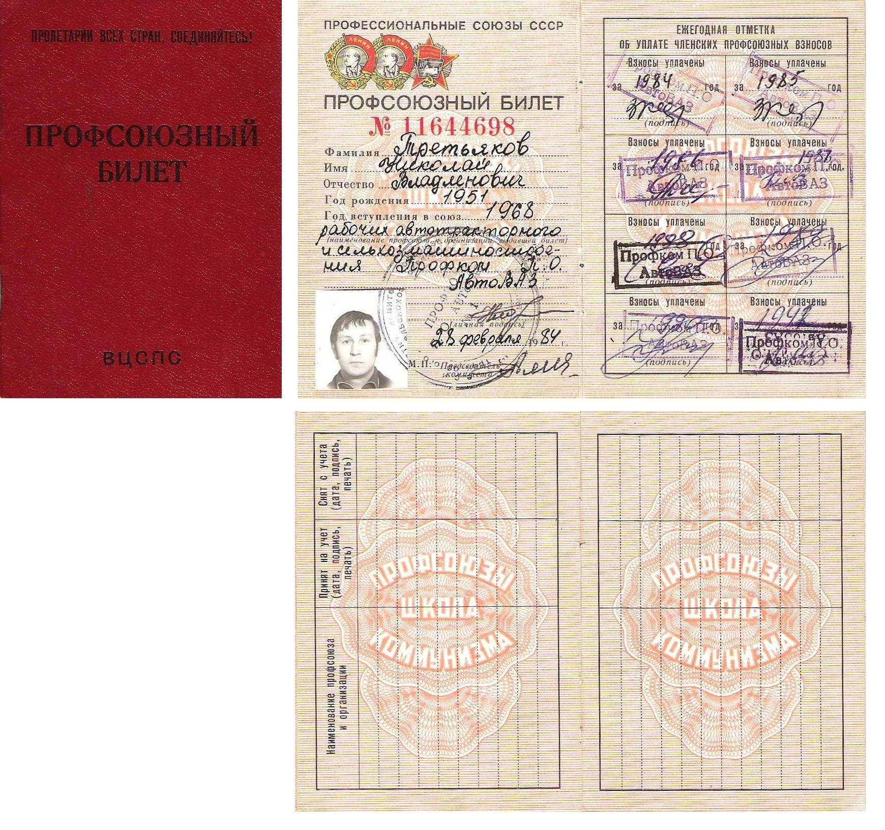 The membership card of the all-Union Central Council of trade unions of the. The trade Union organization in the USSR. Contains the number of the personal data of the owner of a mark on the payment of membership fees. The slogan of the trade UNIONS are A SCHOOL of COMMUNISM.